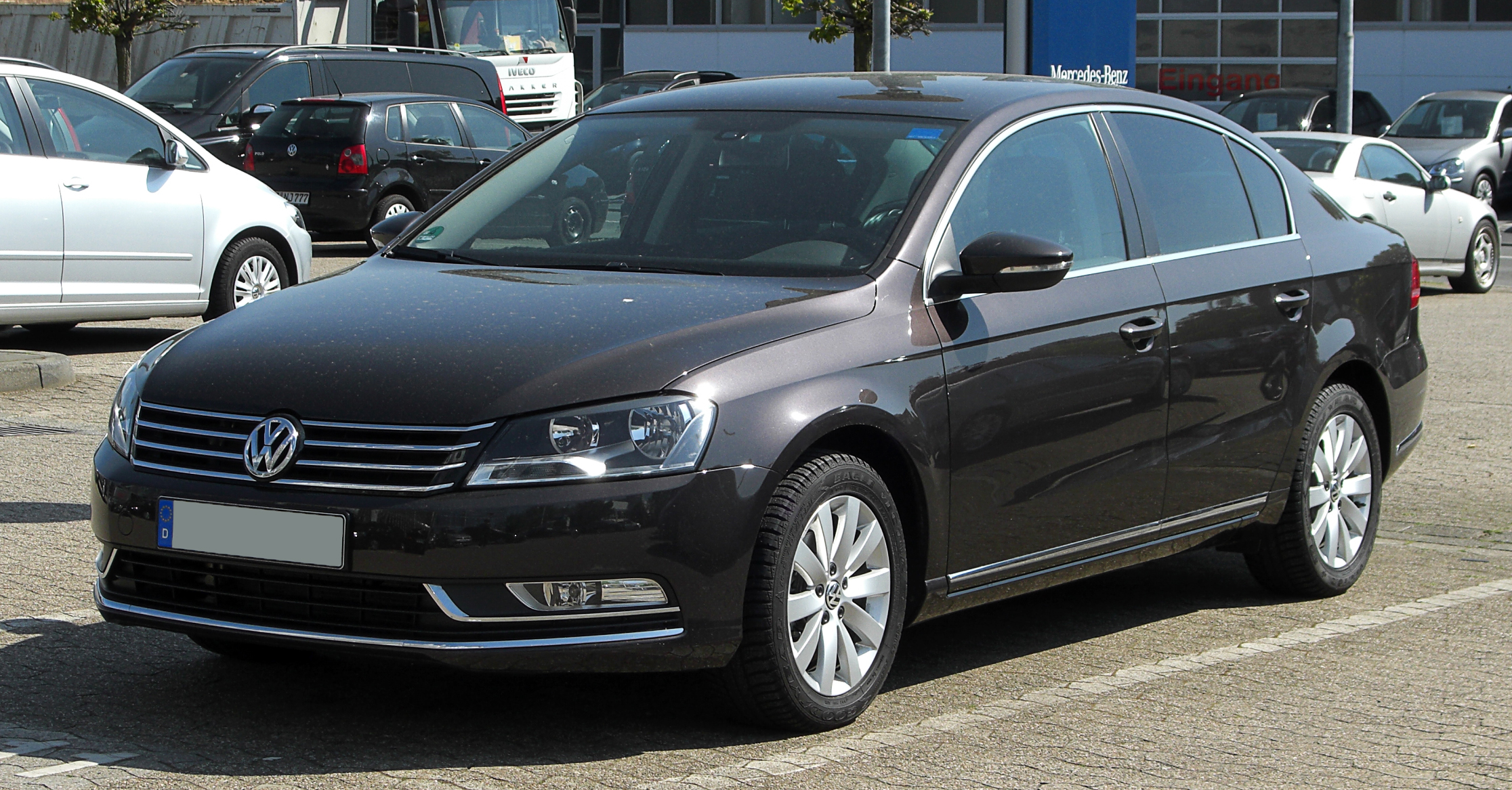 VW Passat 2.0 TDI BlueMotion Technology Comfortline (B7)